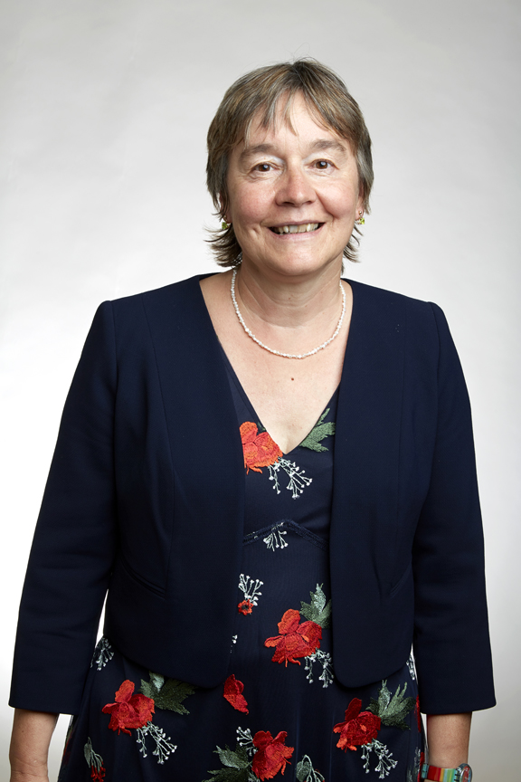 Gabriele Clarissa Hegerl is a Professor of Climate System Science at the University of Edinburgh School of GeoSciences Attribution: The Royal Society